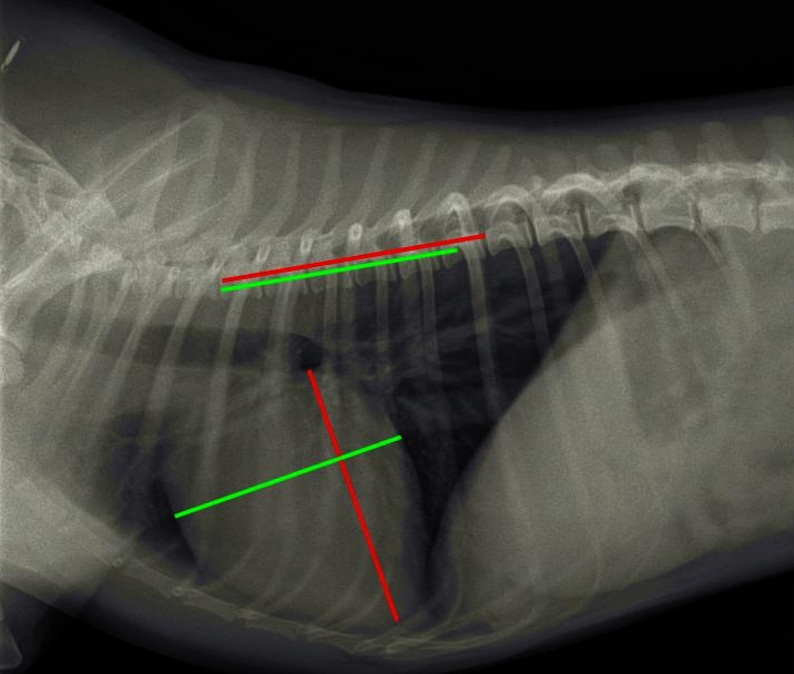 cardial enlargement, evaluated by vertebral heart size